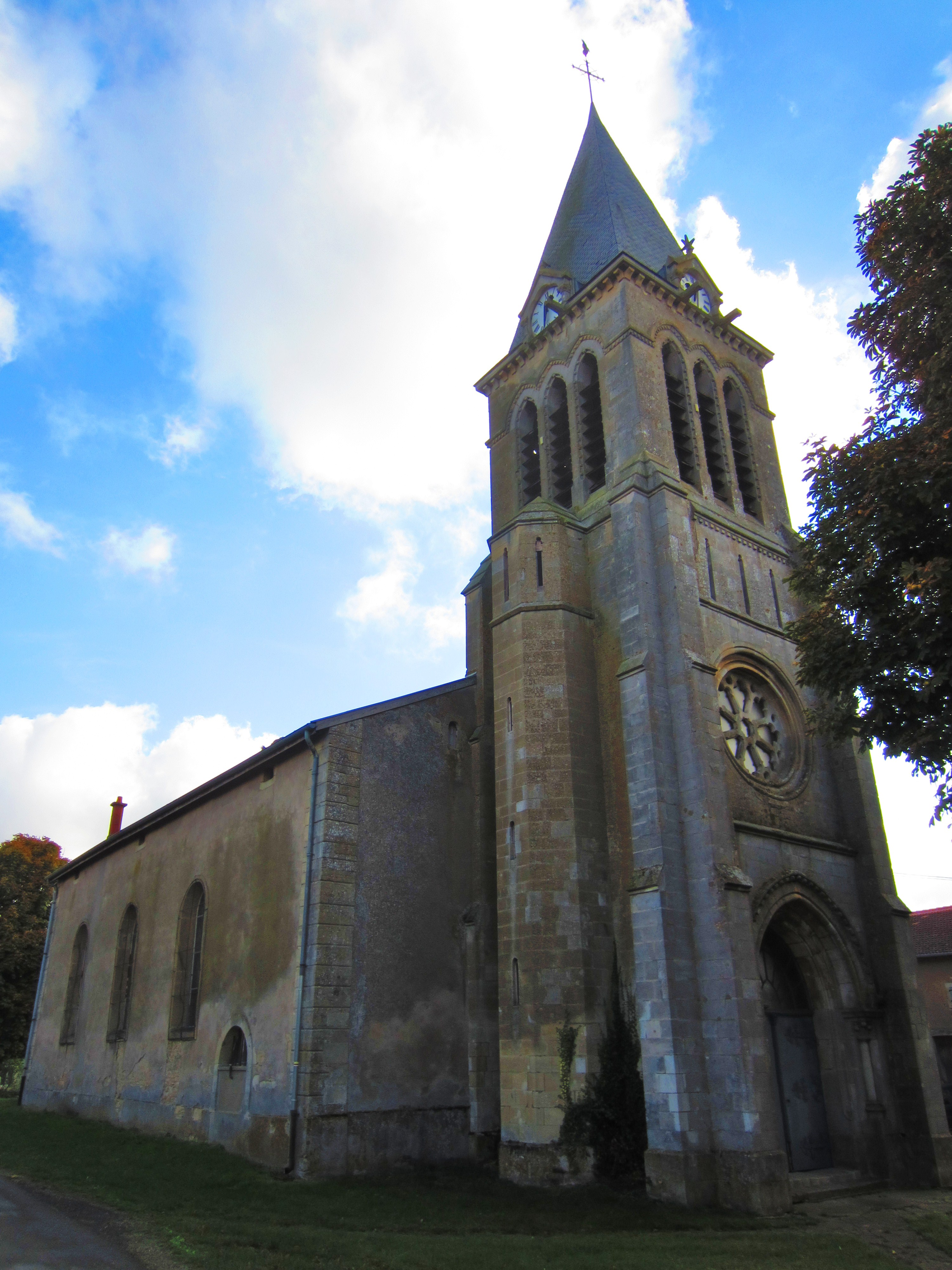 Lachaussee church